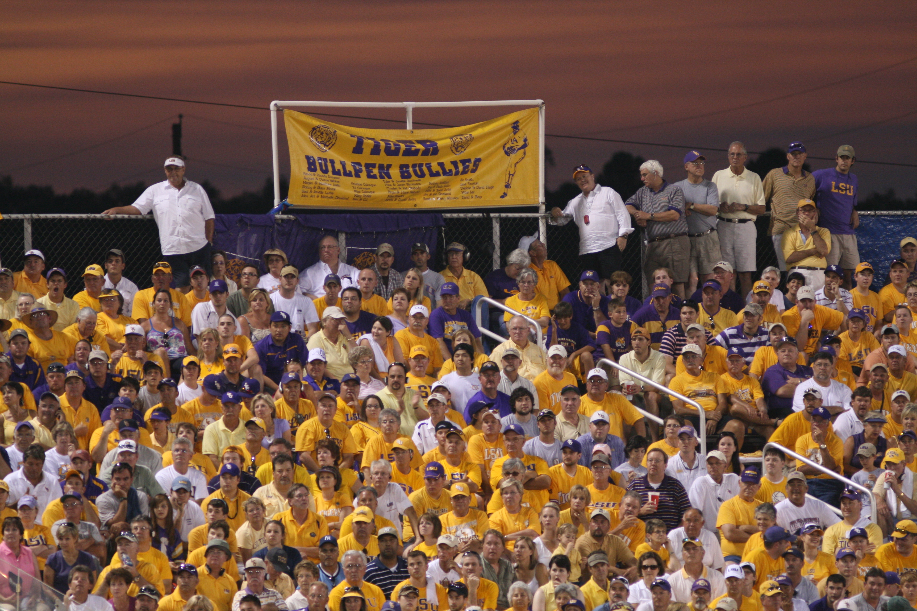 Baton Rouge Regionals '08